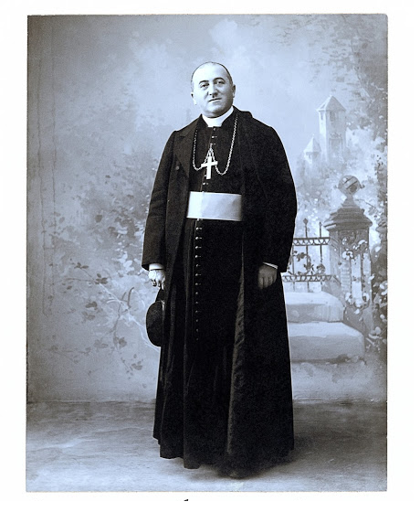 Picture of Monsignor Arnal du Curel, Bishop of Monaco